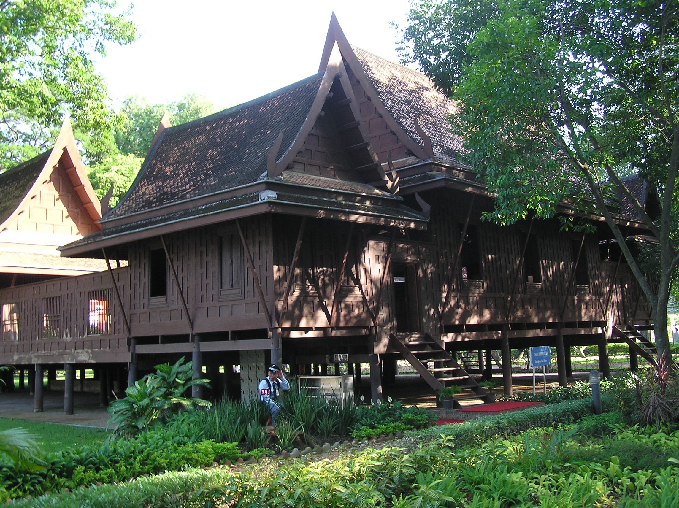 Thap Khwan Residence and garden, one of the residence in Sanam Chan Palace, Nakhon Pathom province พระตำหนักทับขวัญ ใน พระราชวังสนามจันทร์